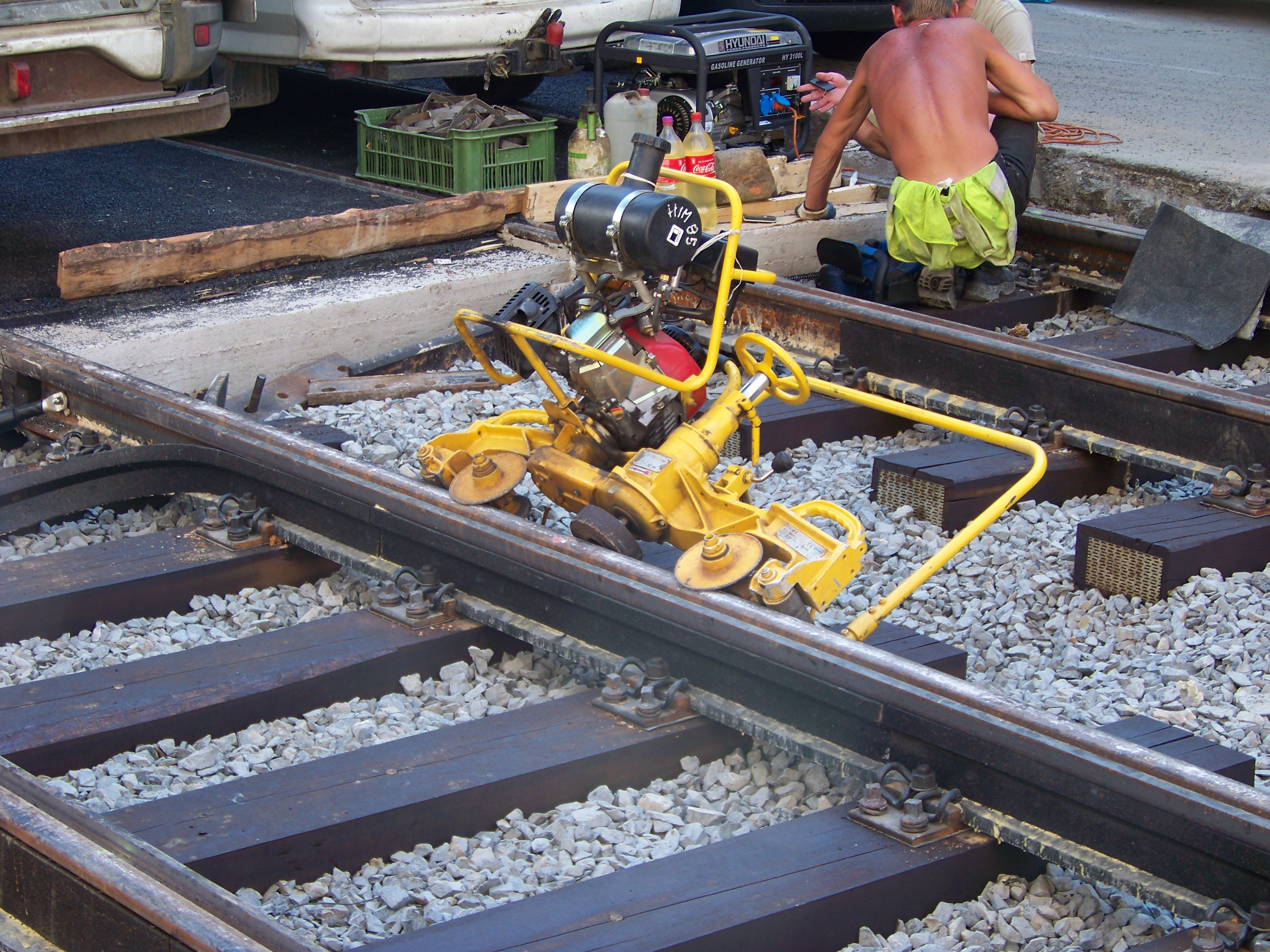 New Town, Prague, the Czech Republic. Spálená street, tram track reconstruction.